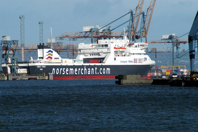 Victoria Terminal No.2 M.V. Mersey Viking unloading containers at the Victoria Terminal No.2